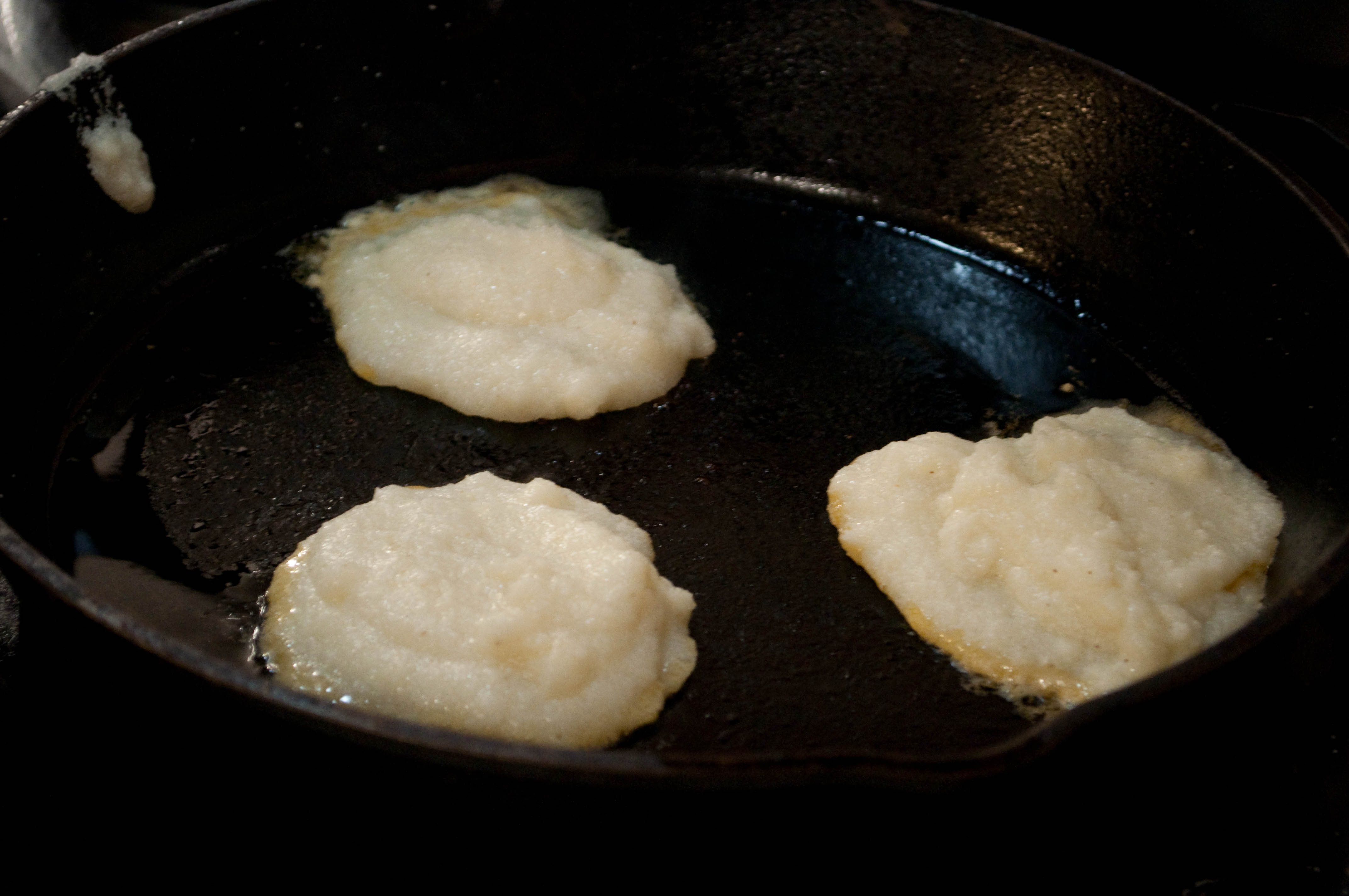 My buddy was cooking it up